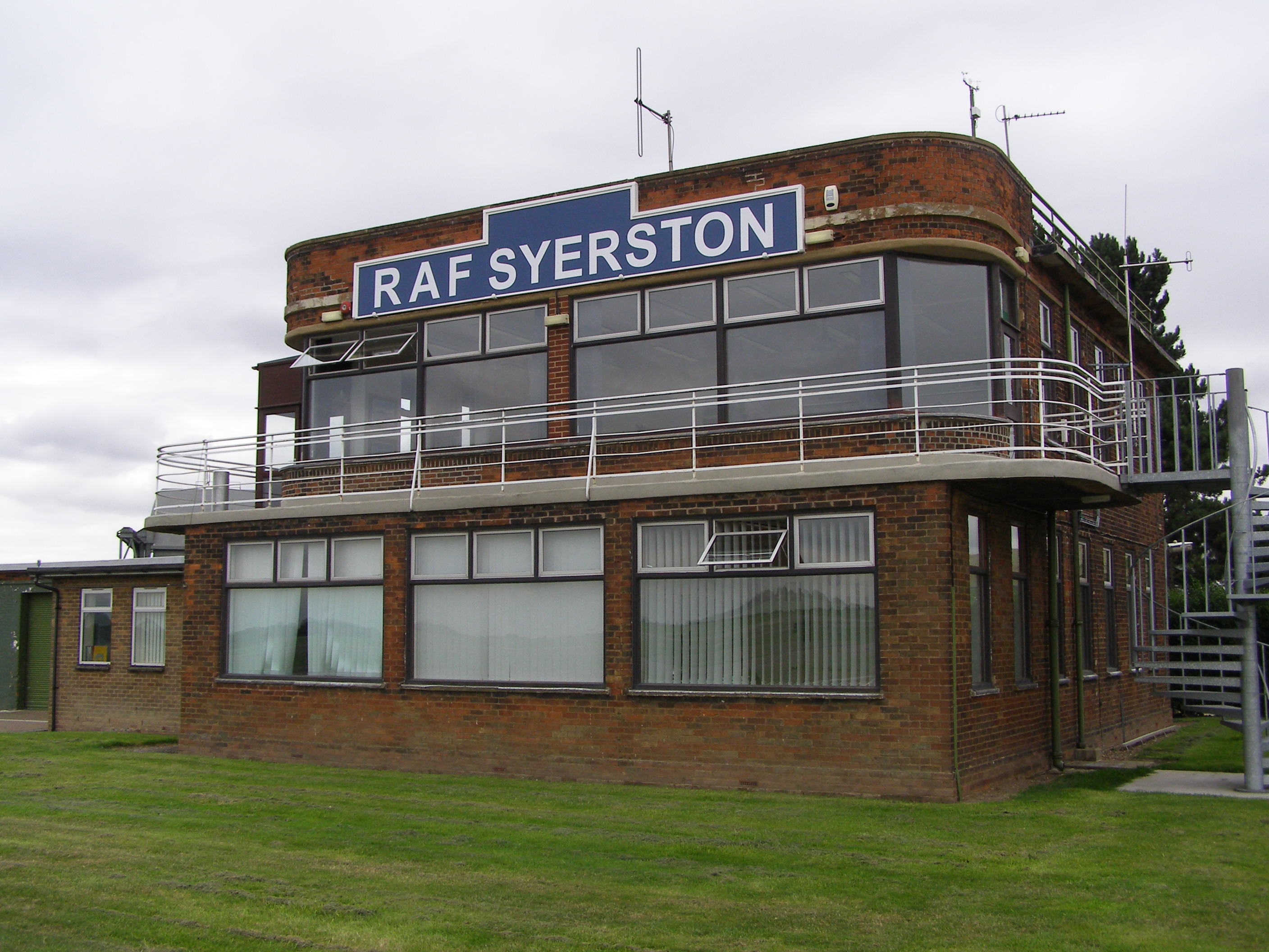 Control Tower at RAF Syerston near Newark, England.